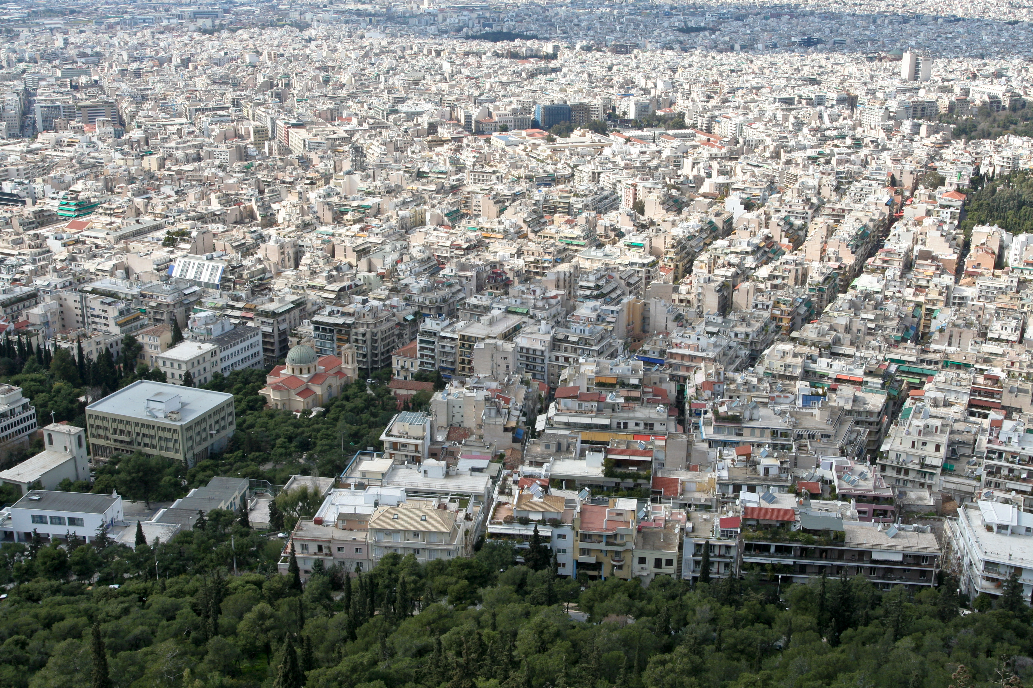 Panorama of Athens from Lykavittos Hill.